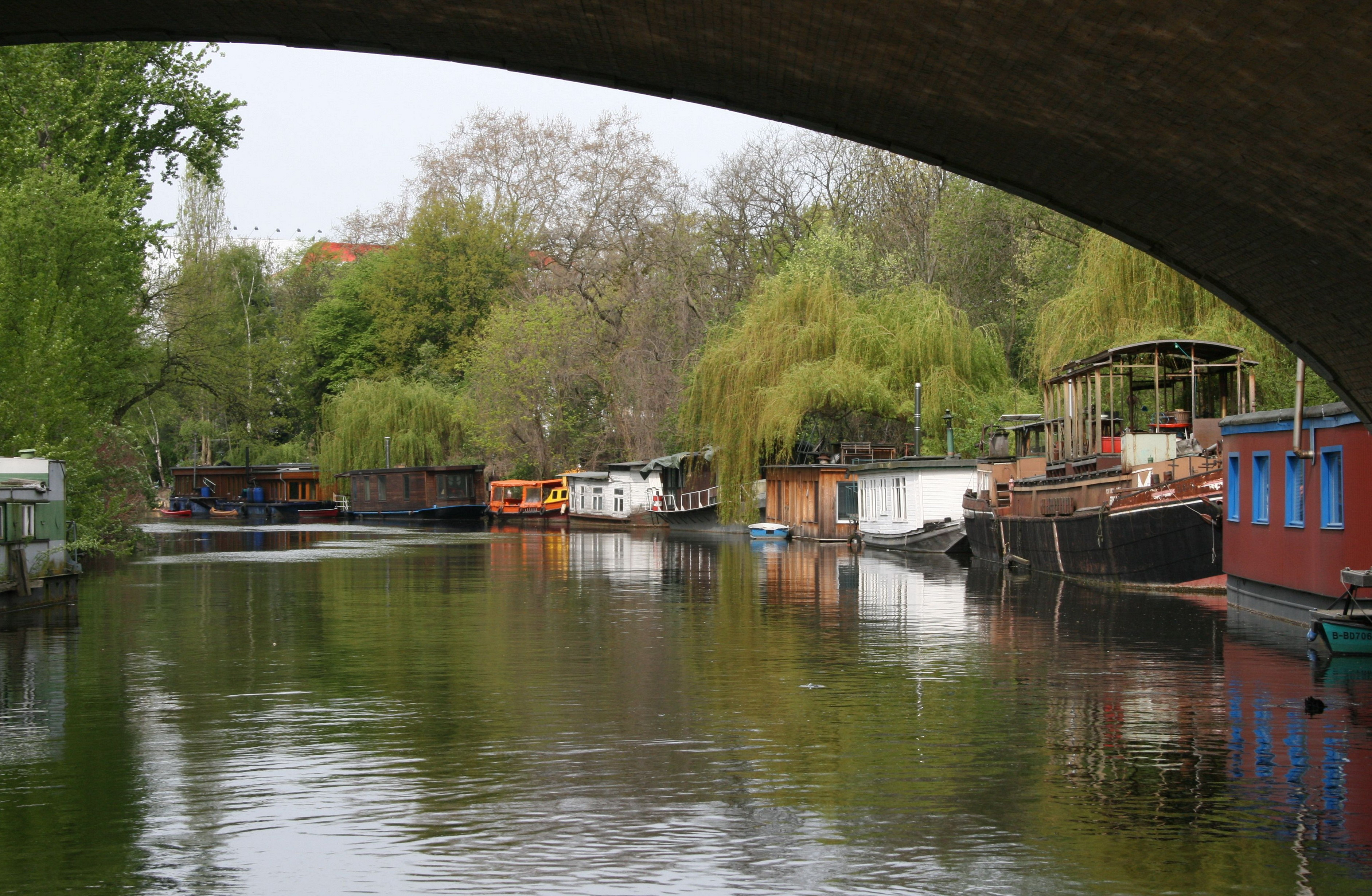 Berlin, Germany: houseboats on the Flutgraben of the Landwehr Channel in the channel Underlock (Unterschleuse) at Berlin-Tiergarten.